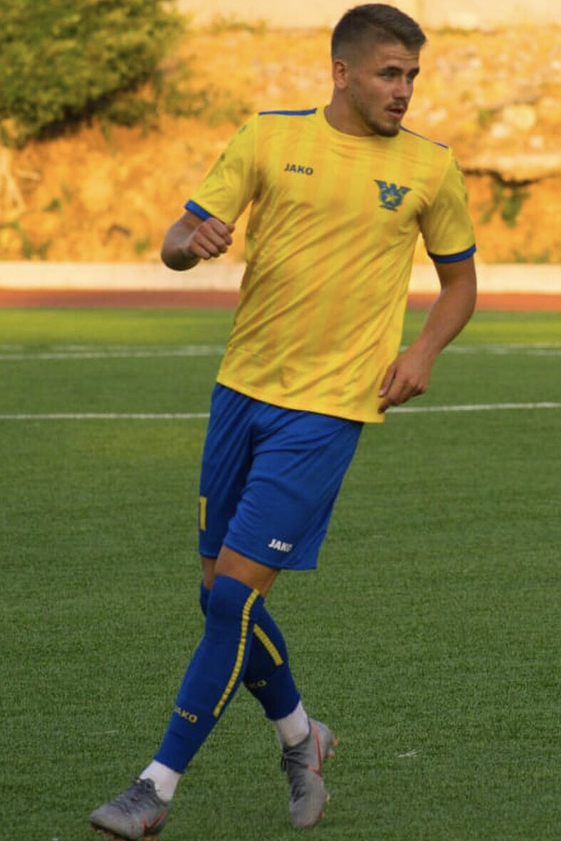 Majed Osman playing for Safa during the 2019 season before the leagues suspension.